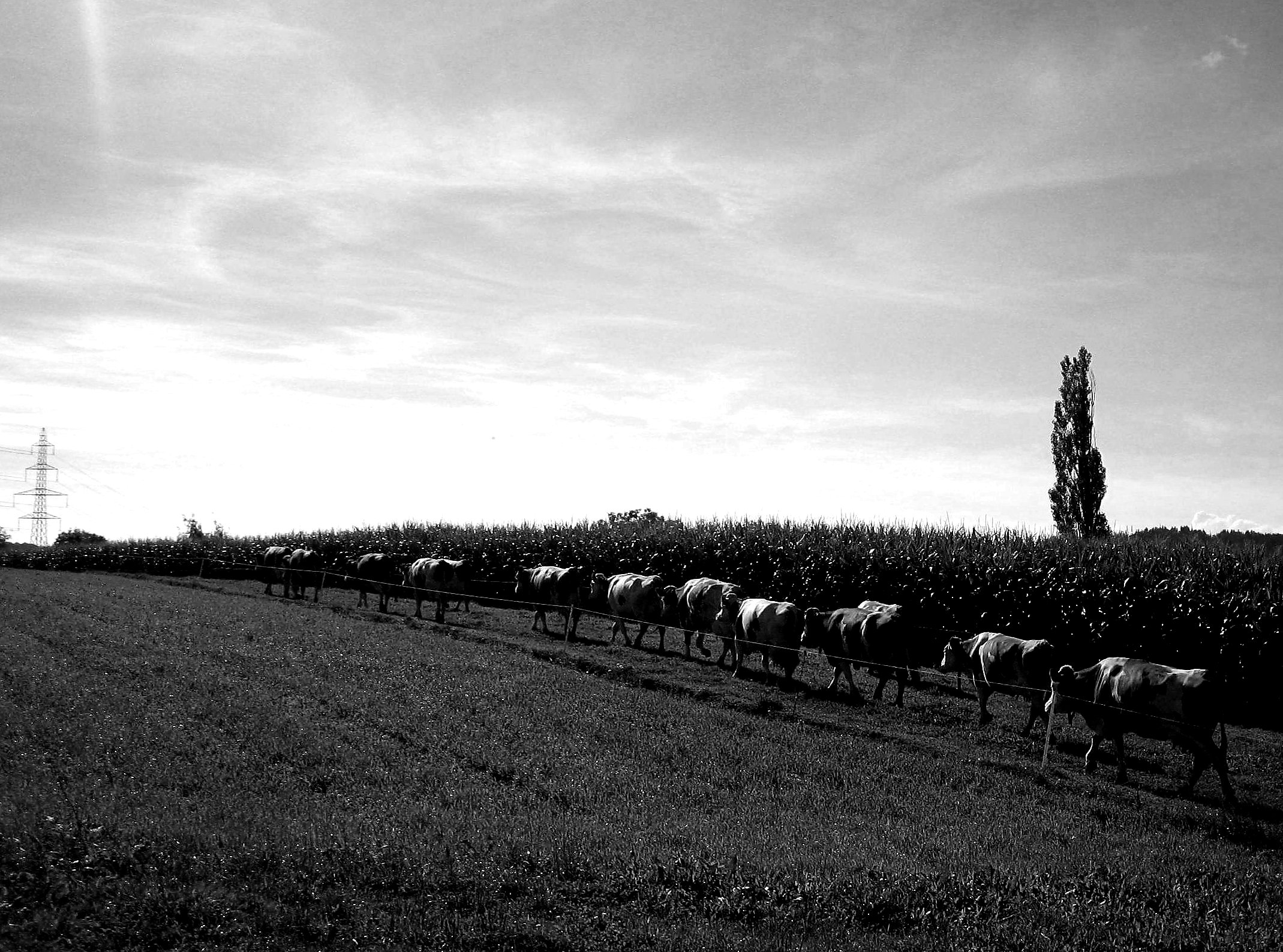 Cattle and fields outside Palézieux-Gare village in Palézieux, Vaud, Switzerland